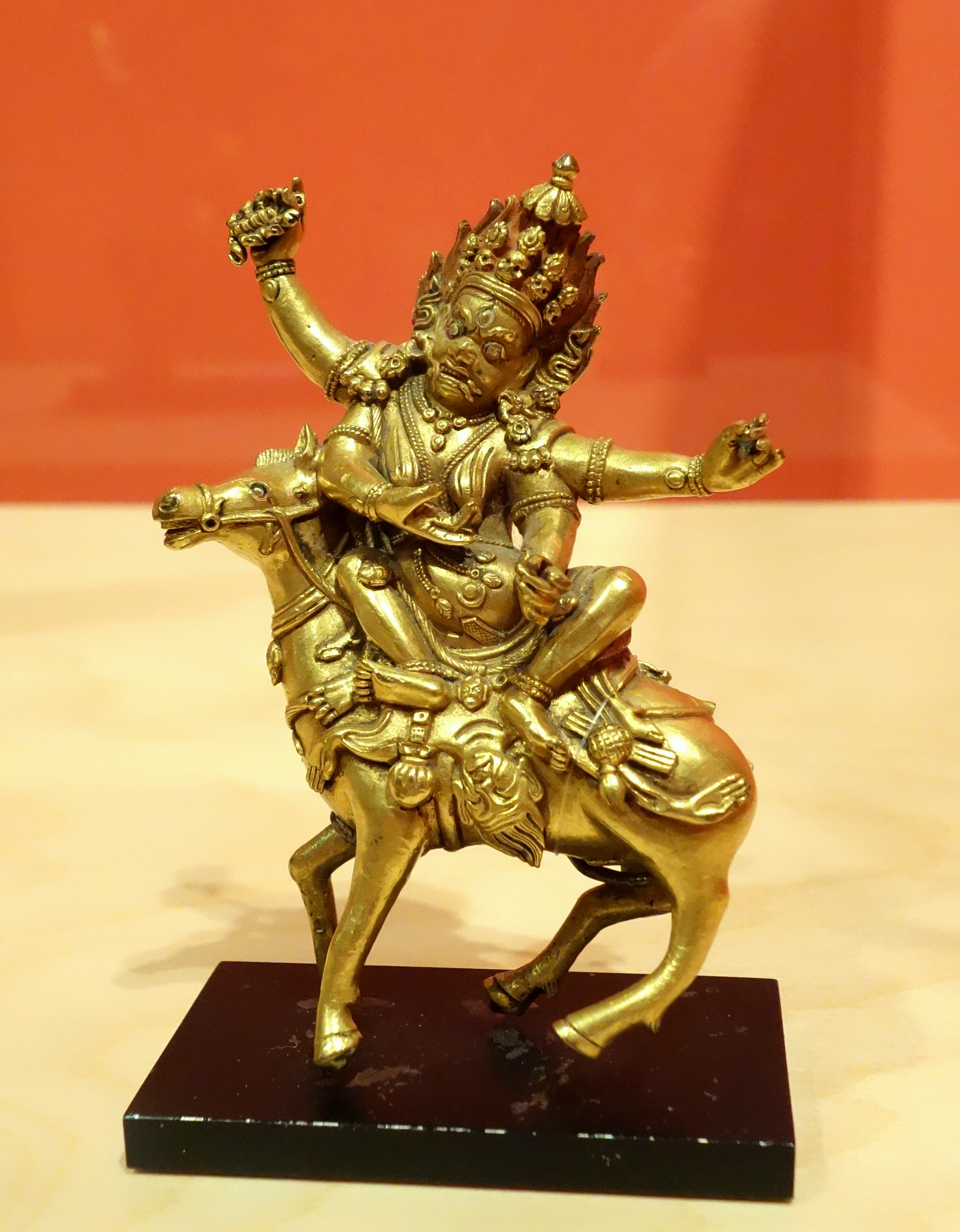 Exhibit in the Berkeley Art Museum and Pacific Film Archive, 2625 Durant Avenue #2250, Berkeley, California, USA. This museum is part of the University of California, Berkeley. This artwork is in the public domain because the artist died more than 70 years ago. Photography of this exhibit was permitted without restriction.